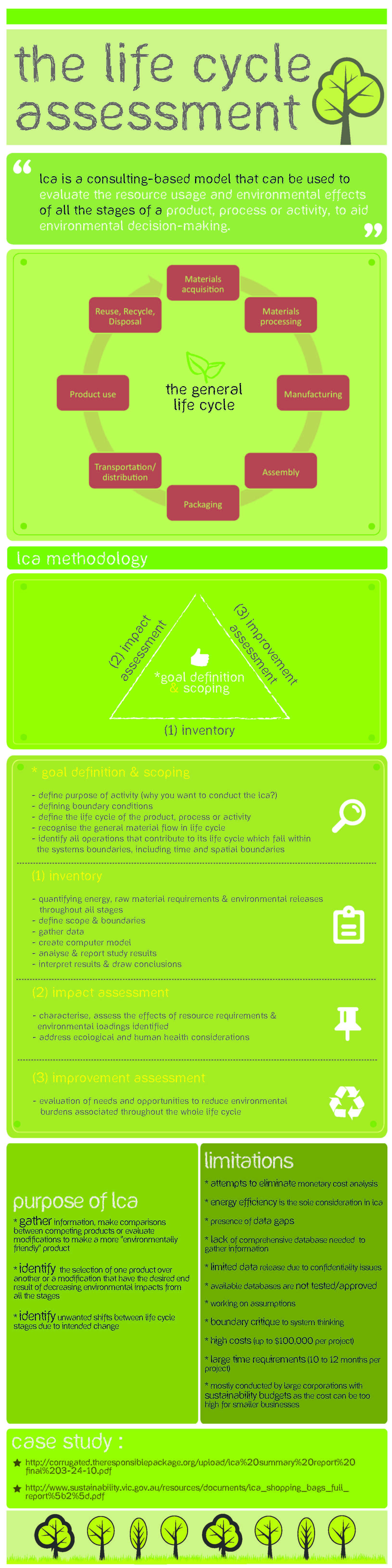 Summary of LCA